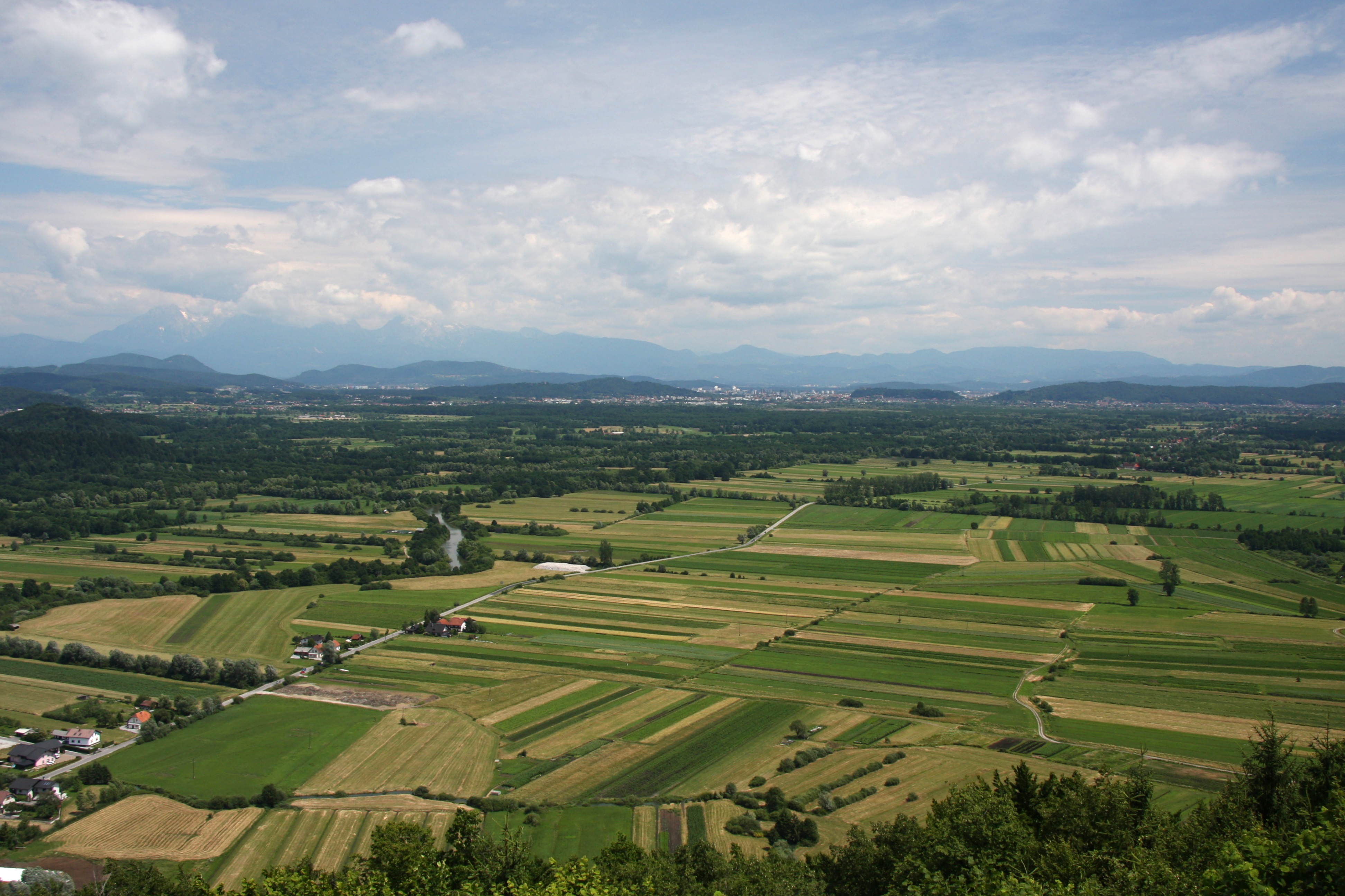 Eastern part of Ljubljana marsh (central Slovenia), with Ljubljana in the distance. River on the left is Ljubljanica. Picture taken from St. Anne hill near Podpeč, Brezovica municipality.